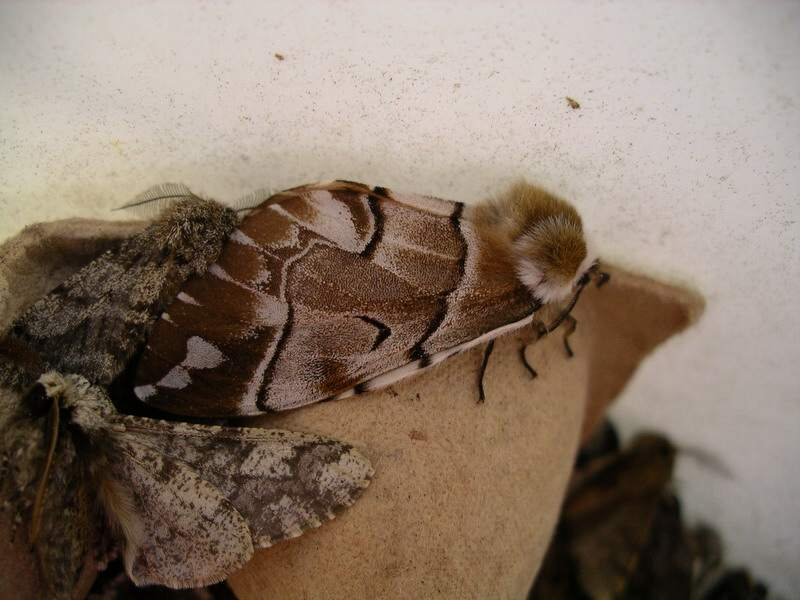 Endromis versicolora. Taken at reservation of Varduva, Lithuania.